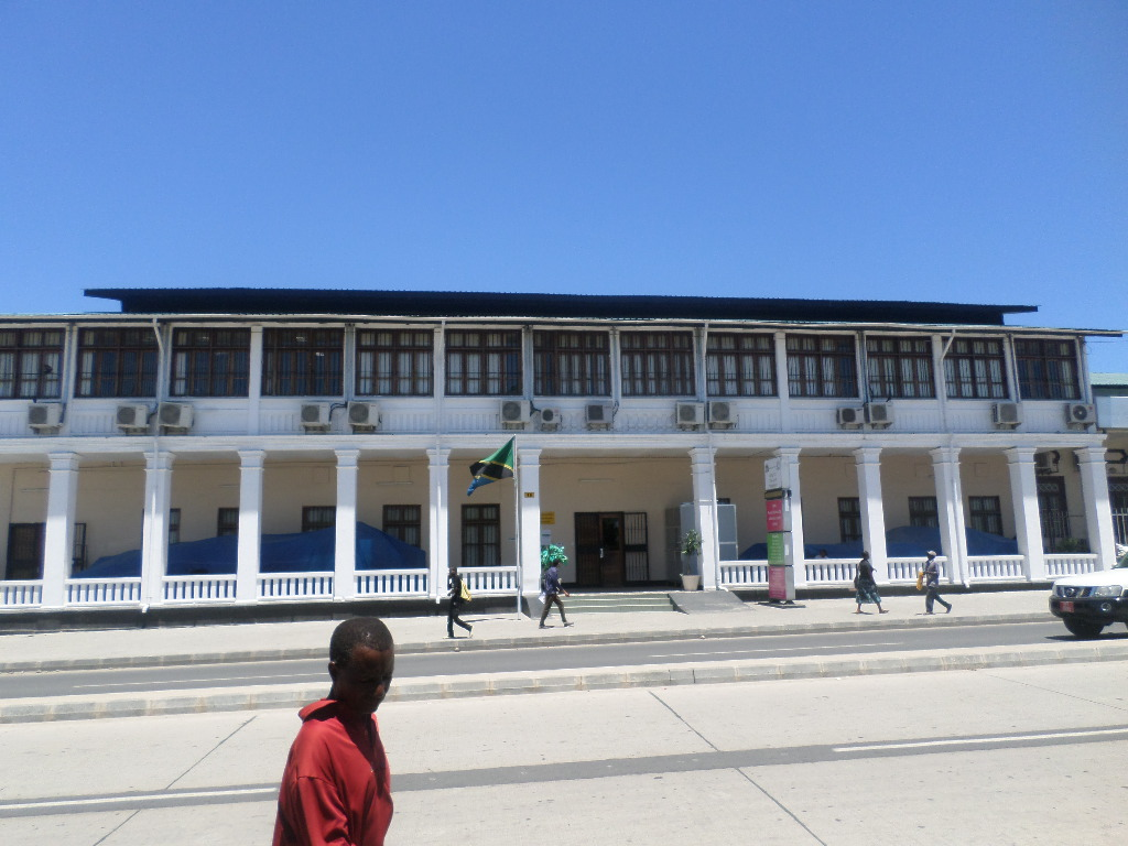 The National Statistics house